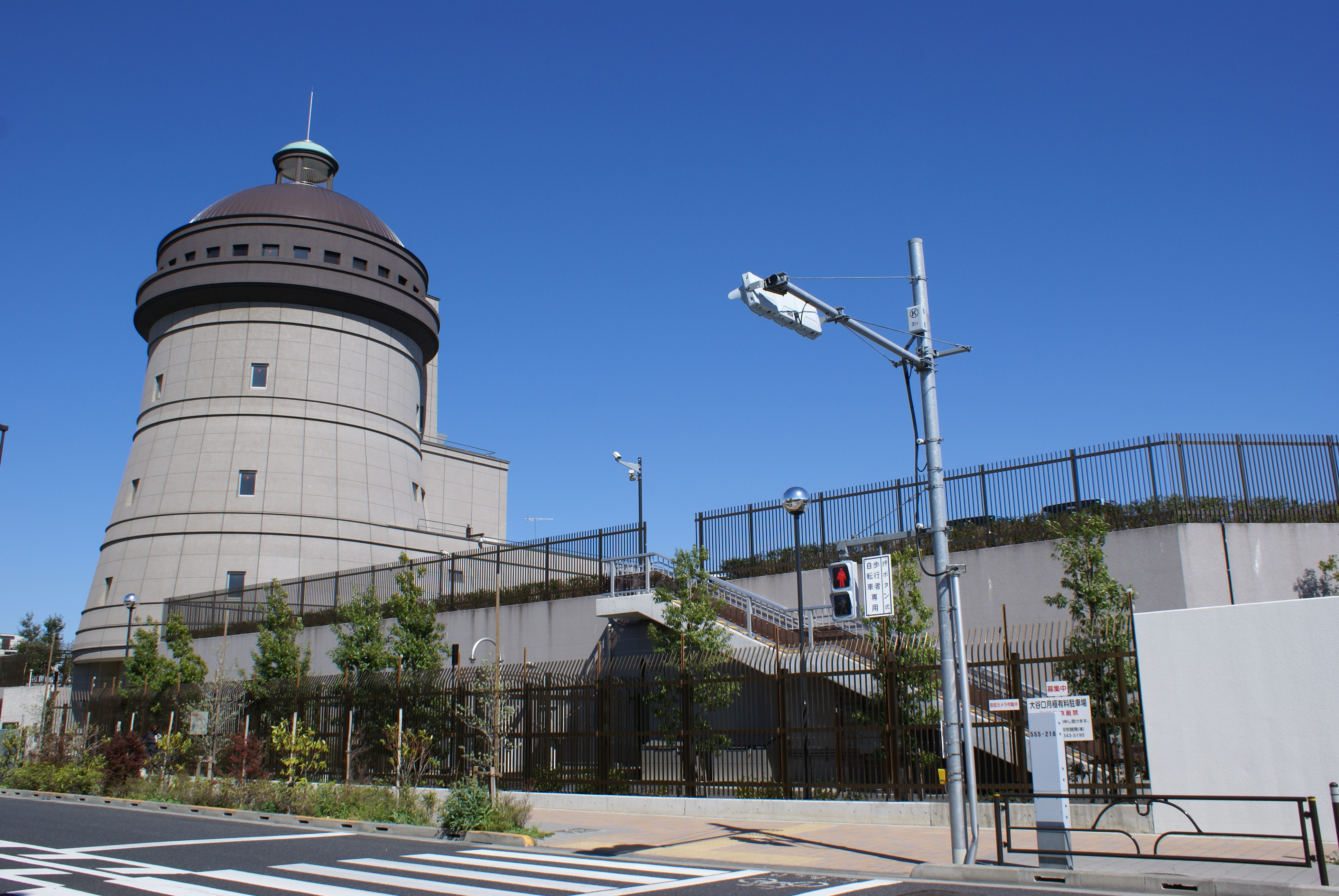 Tokyo Metropolitan Government Bureau of Waterworks Oyaguchi Water Supply Station in Itabashi, Tokyo, Japan